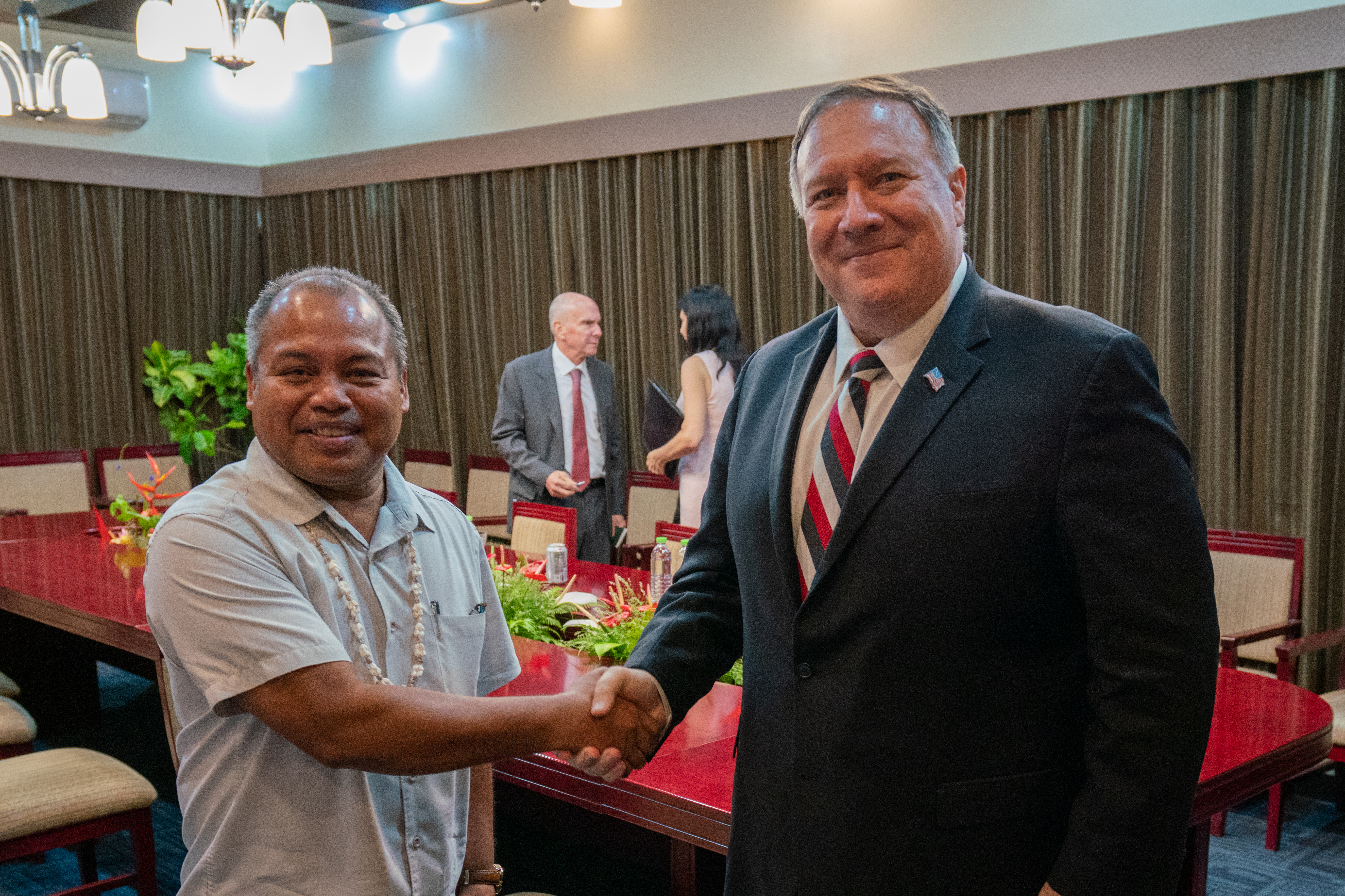 U.S. Secretary of State Michael R. Pompeo meets with Palau Vice President Raynold B. Oilouch in Kolonia, Federated States of Micronesia, on August 5, 2019. [State Department Photo by Ron Przysucha/ Public Domain]